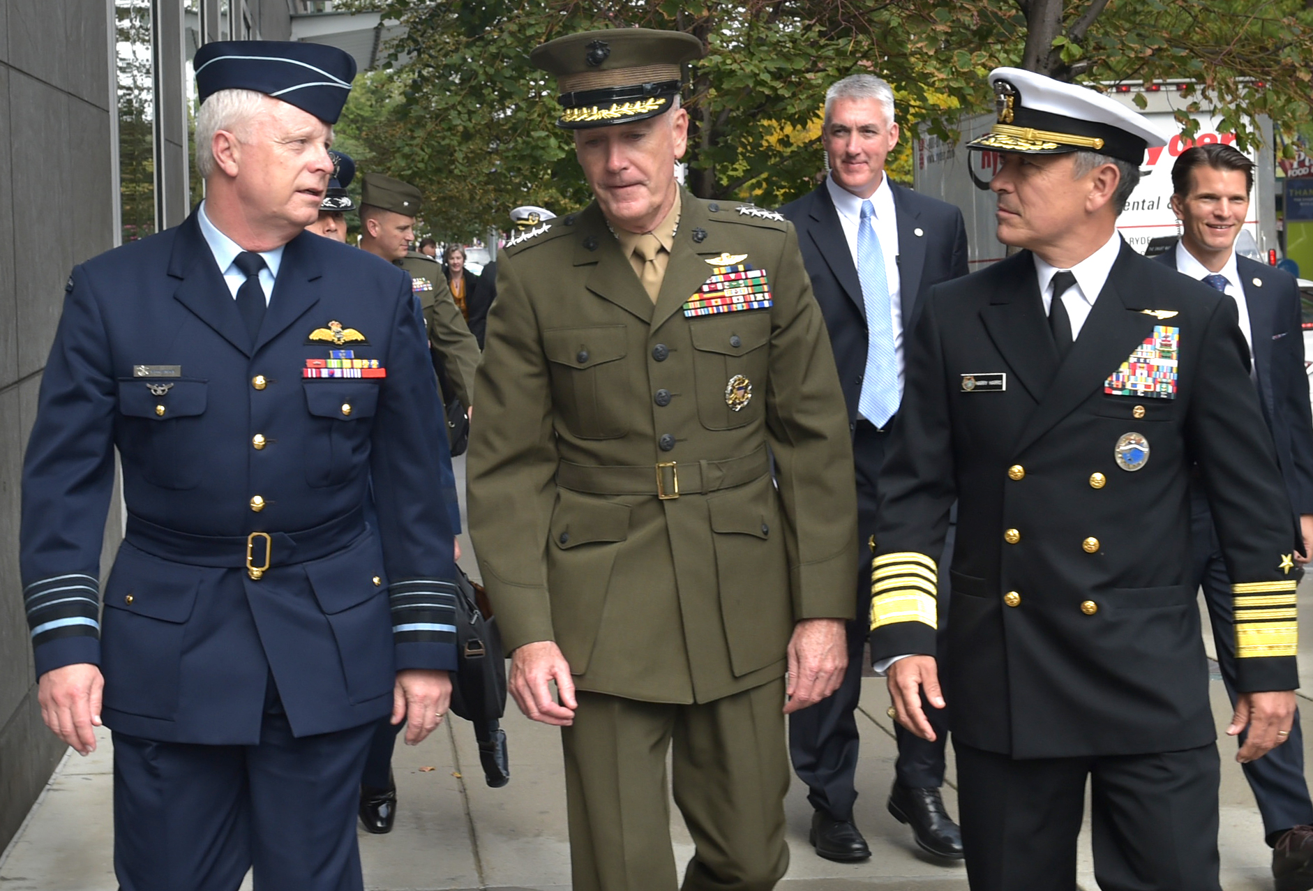 (left to right) Air Chief Marshal Mark Binskin, Australian Chief of the Defense, U.S. Marine Gen. Joseph F. Dunford Jr., chairman of the Joint Chiefs of Staff, and U.S. Navy Adm. Harry Harris Jr., commander of U.S. Pacific Command, walk to their next meeting of the 2015 Australia-United States Ministerial Consultations (AUSMIN) in Boston, Mass, Oct. 13, 2015. (DoD photo by D. Myles Cullen/Released)